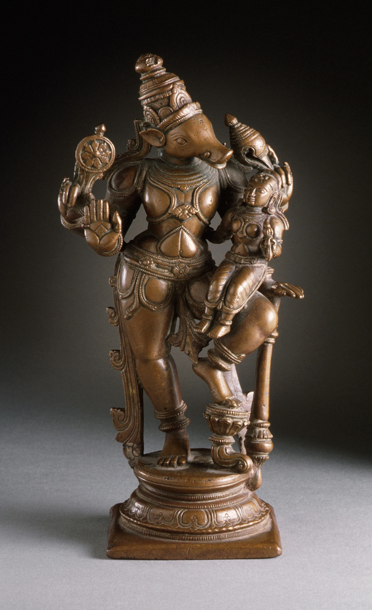 India, Tamil Nadu, circa 1600 Sculpture Copper Gift of Anna Bing Arnold (M.87.160.2) South and Southeast Asian Art